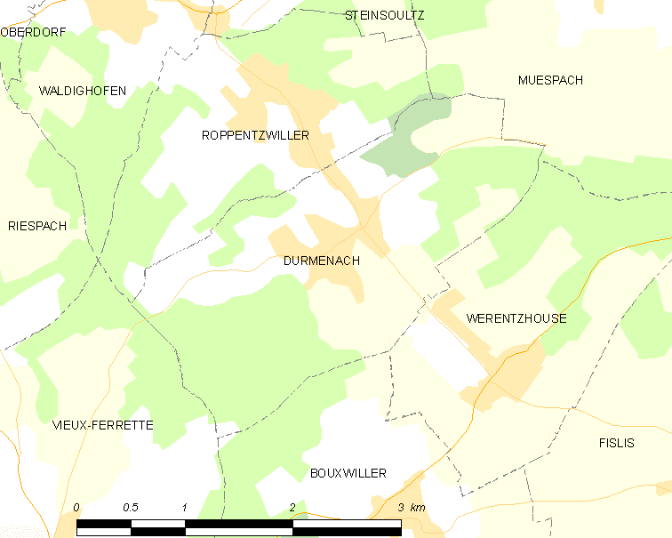 Map of French municipality